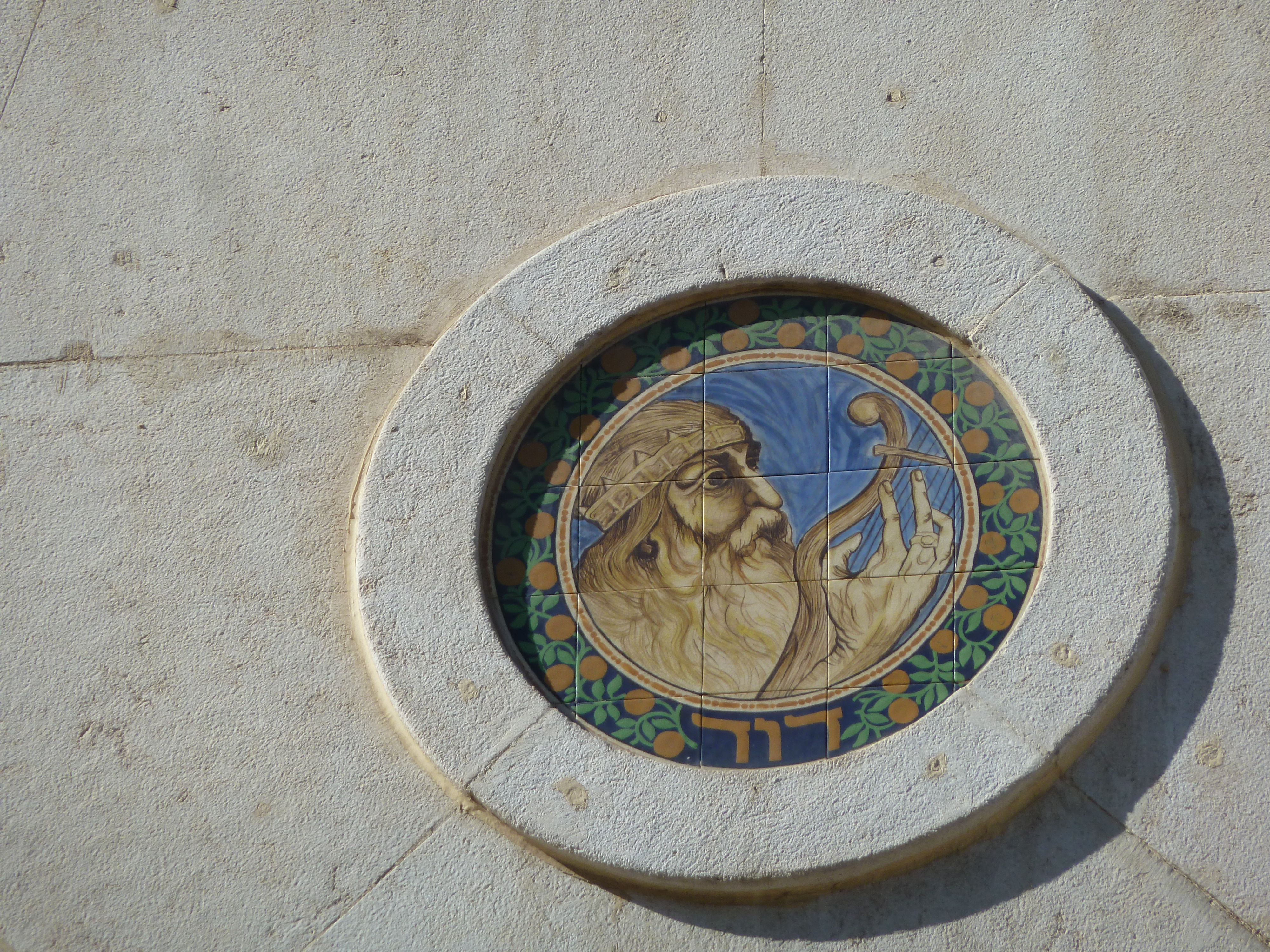 Ehad Haam street, Tel Aviv